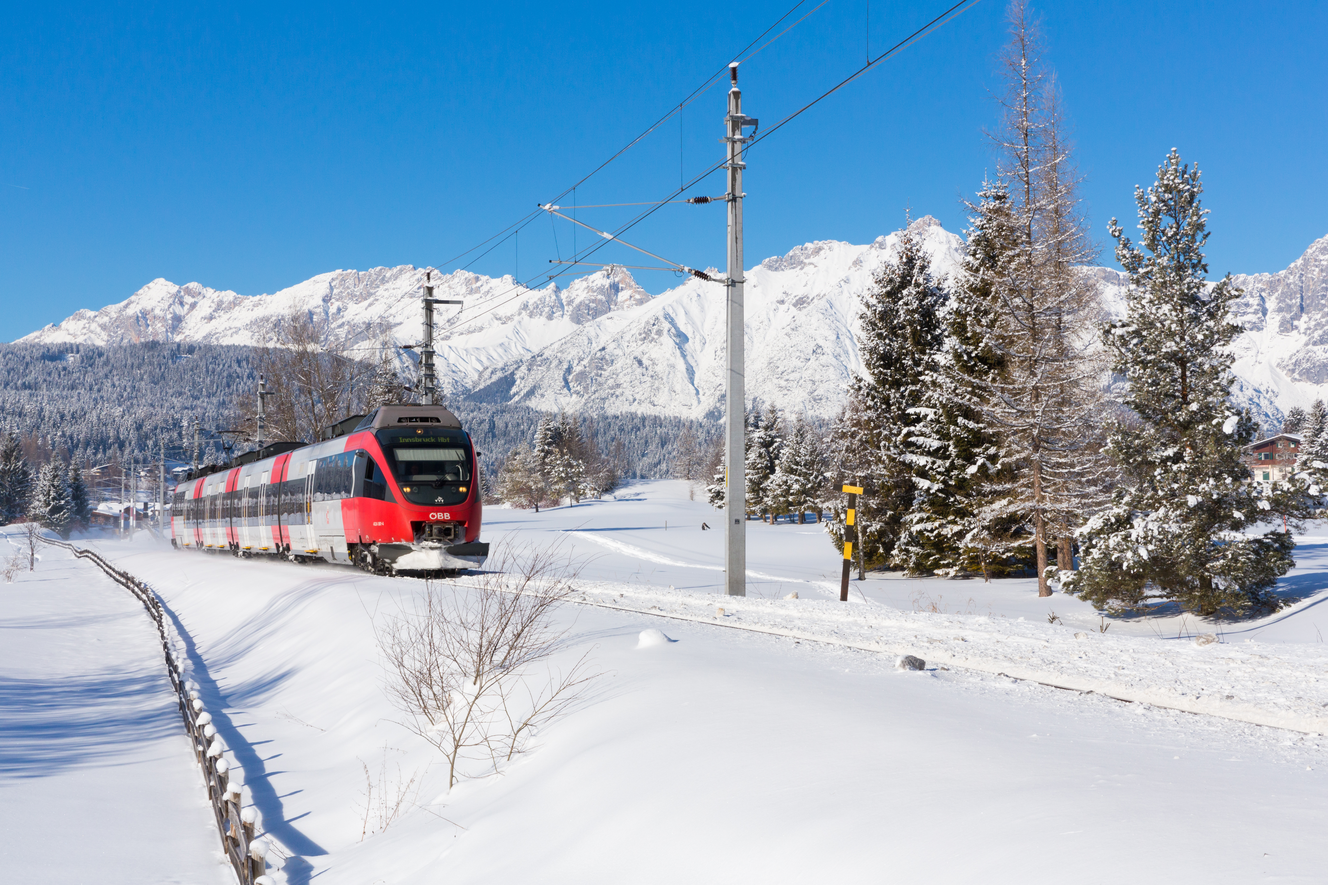 ÖBB 4024-81 near Seefeld.